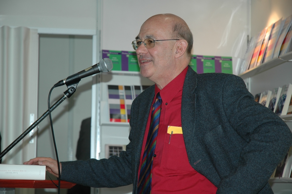 Tom Segev at the Leipziger Buchmesse (Leipzig Book Fair)